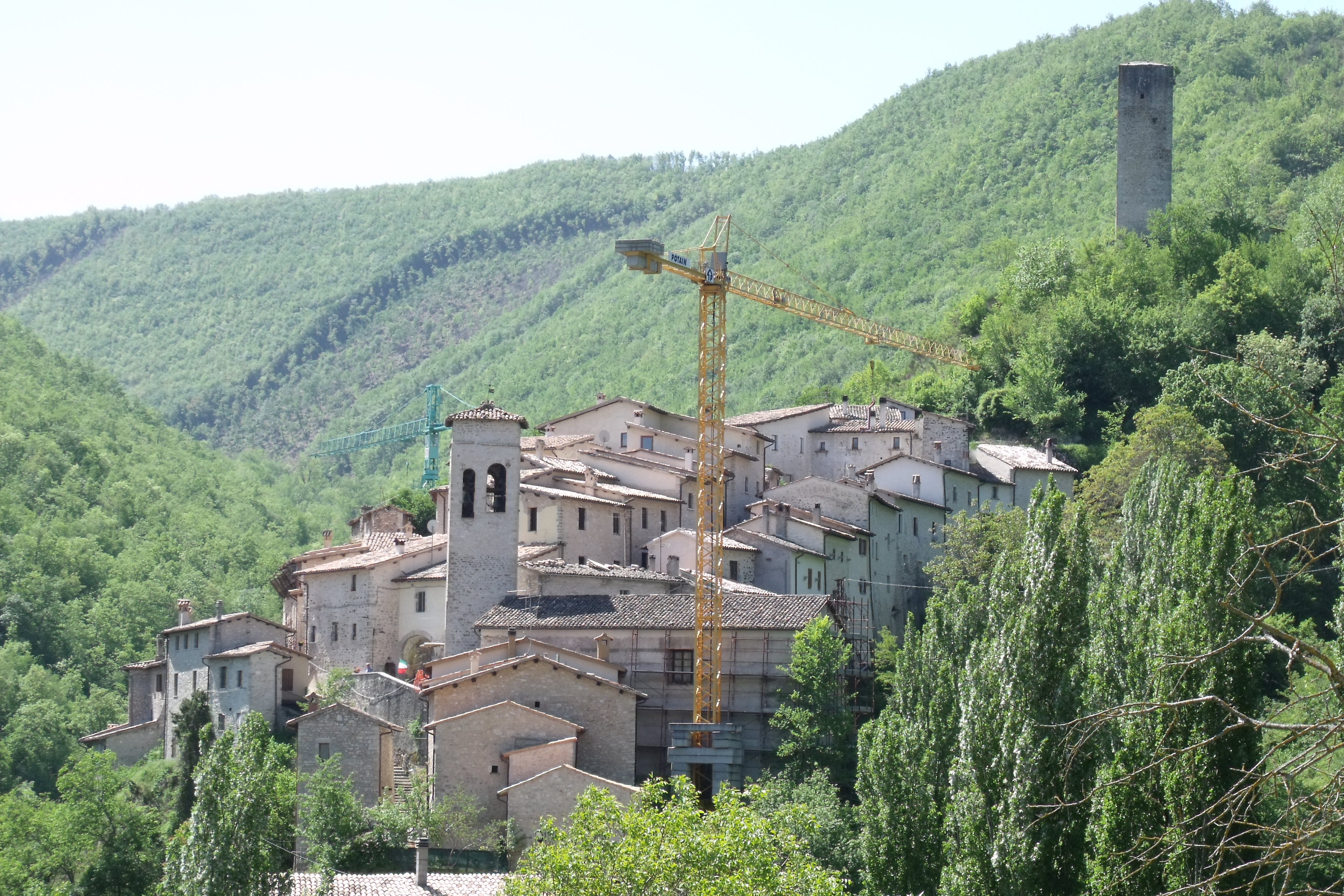 Panorama of Roccanolfo, Municipality of Preci, Province of Perugia, Umbria, Italy